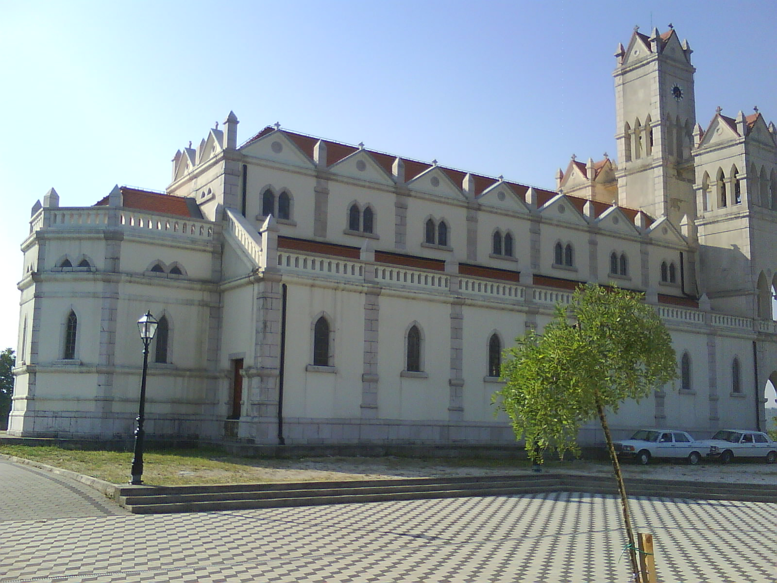 Roman catholic church of St. Catherine in Grude